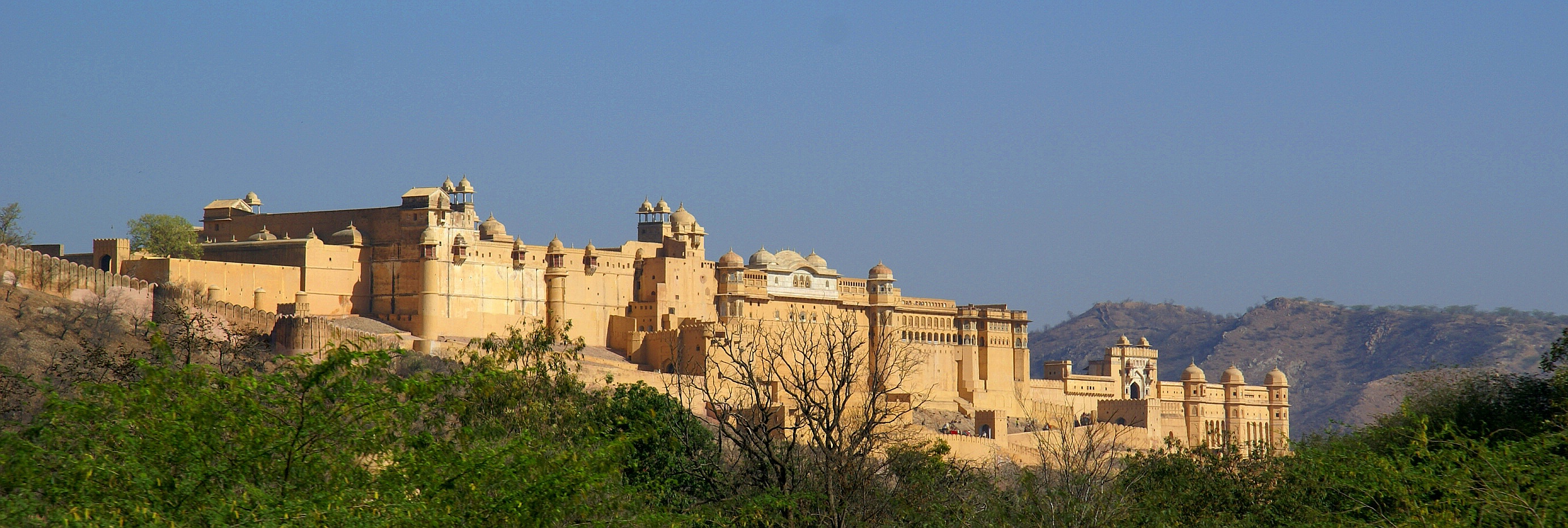 A panoramic view of the Amber palace in Jaipur, Rajasthan, India.